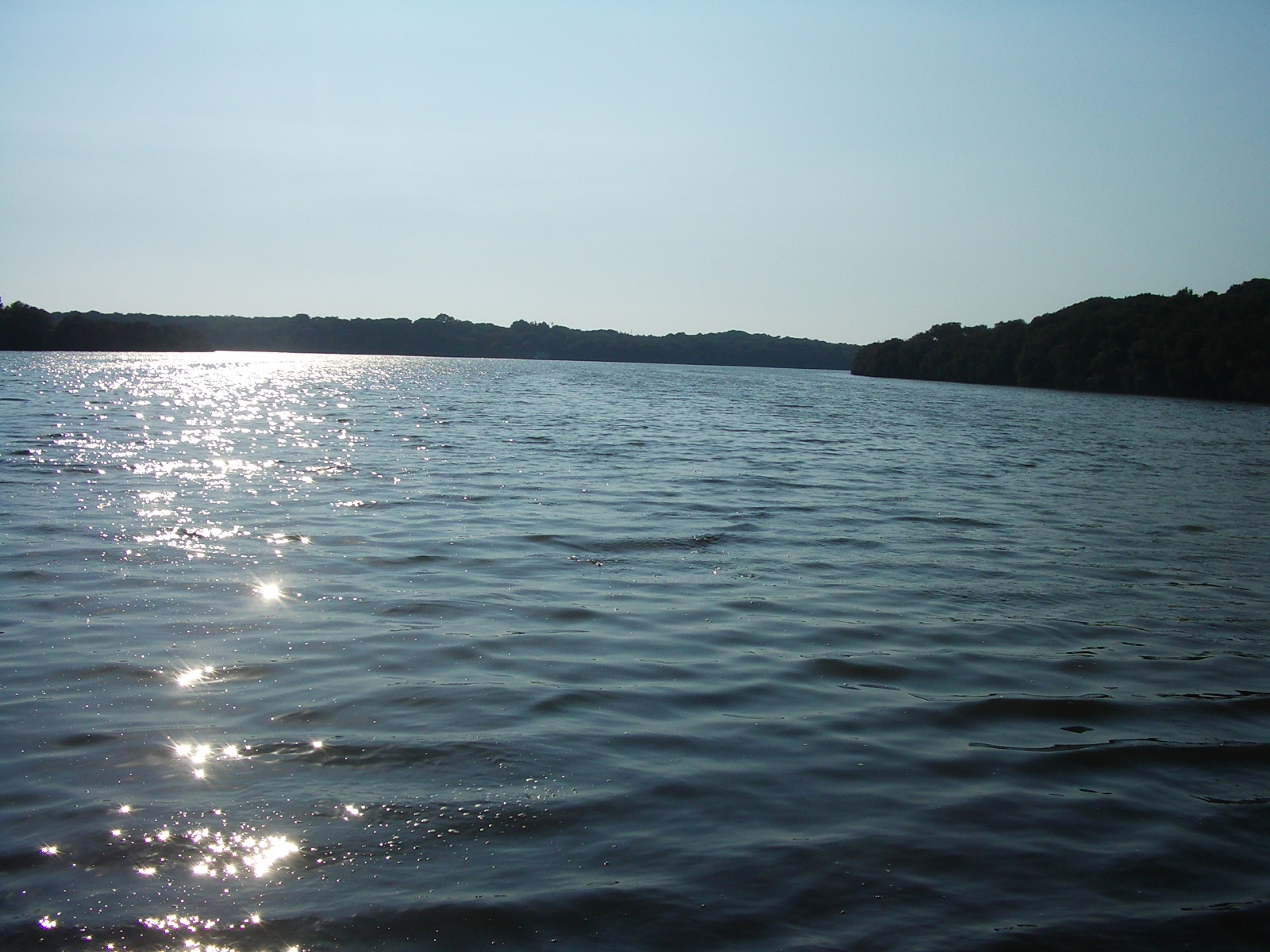 Lago di Paola